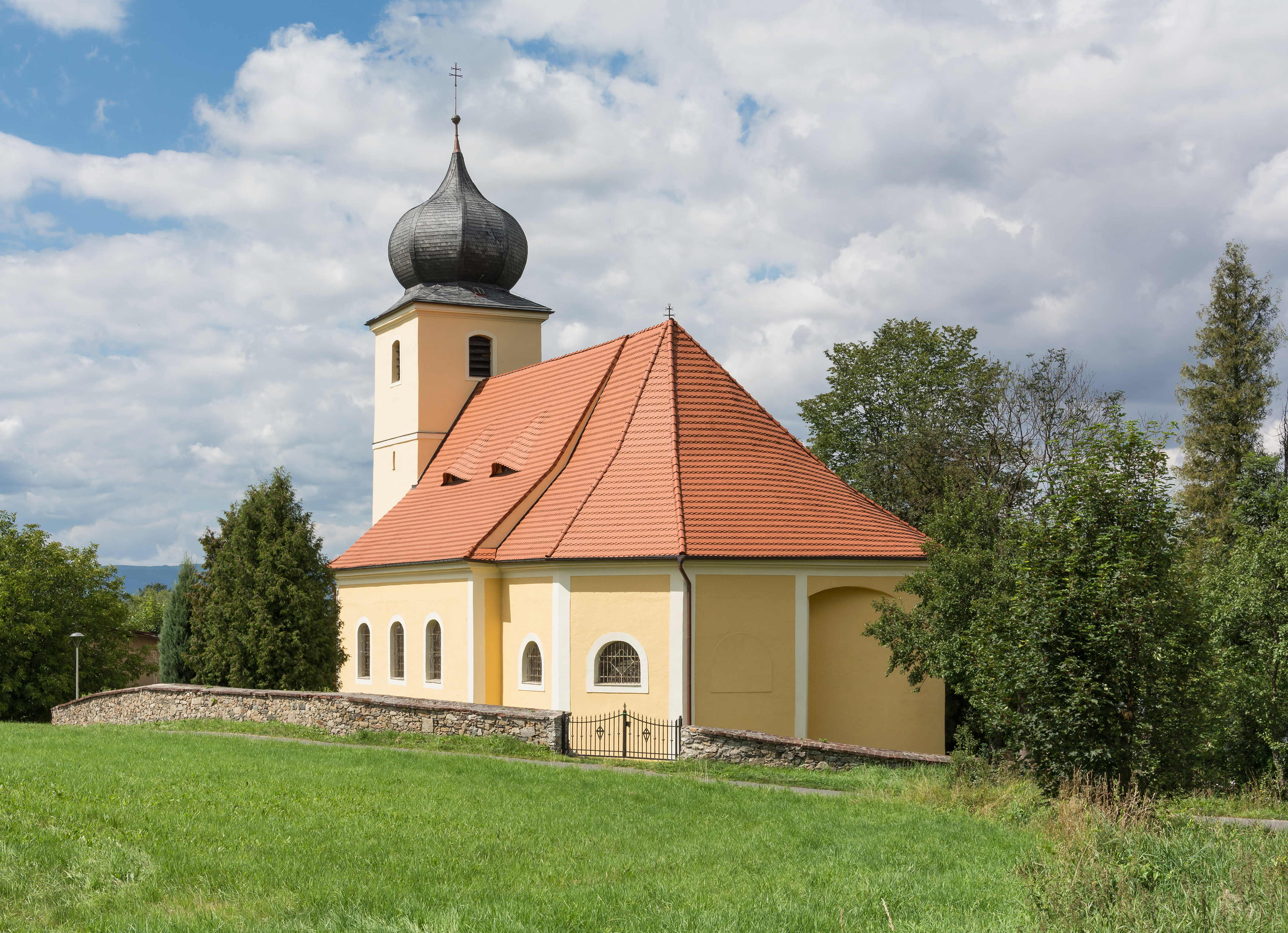 Church of Saint Bartholomew in Skrzynka